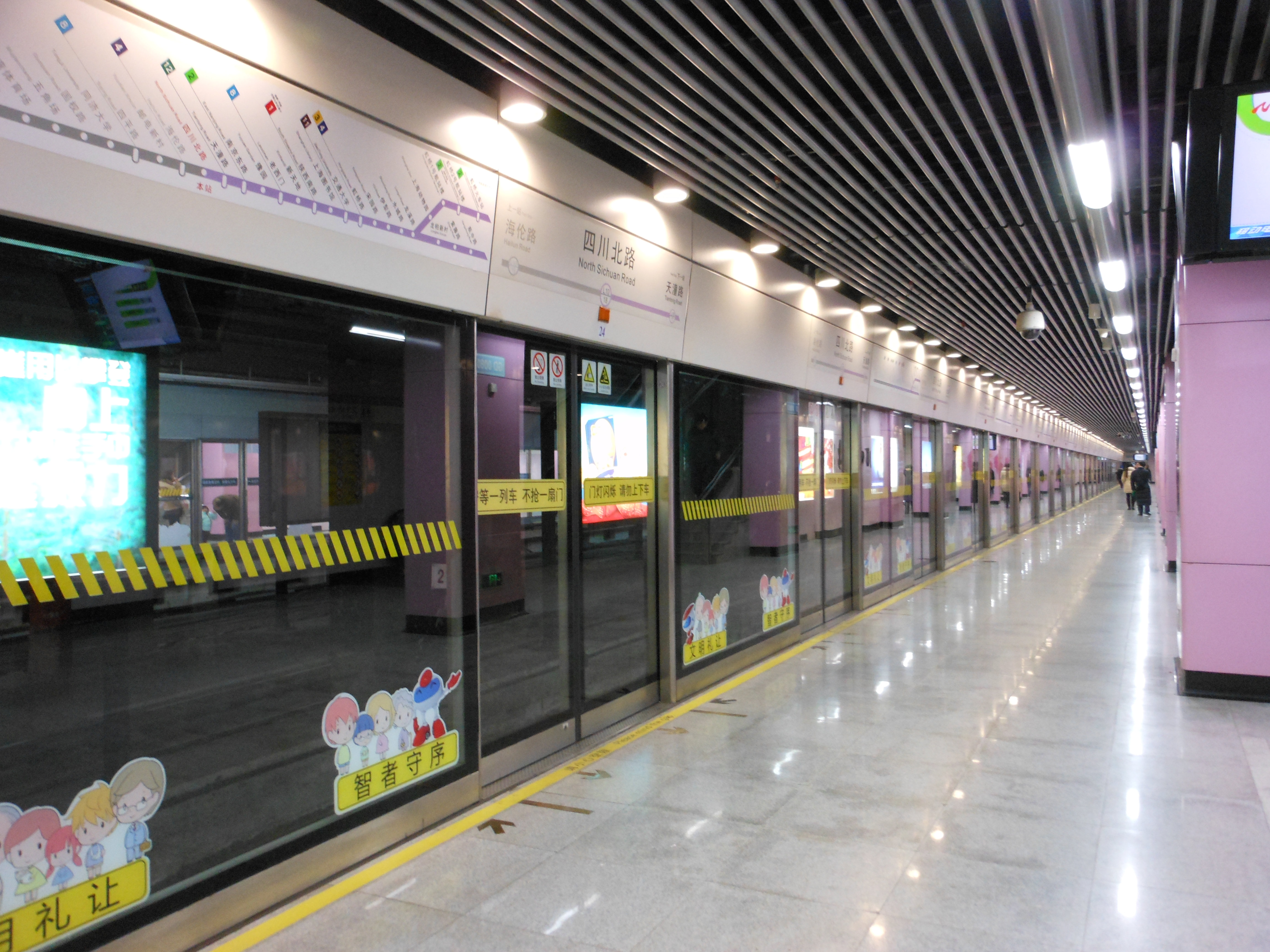 Line 10 Platform of North Sichuan Road Station